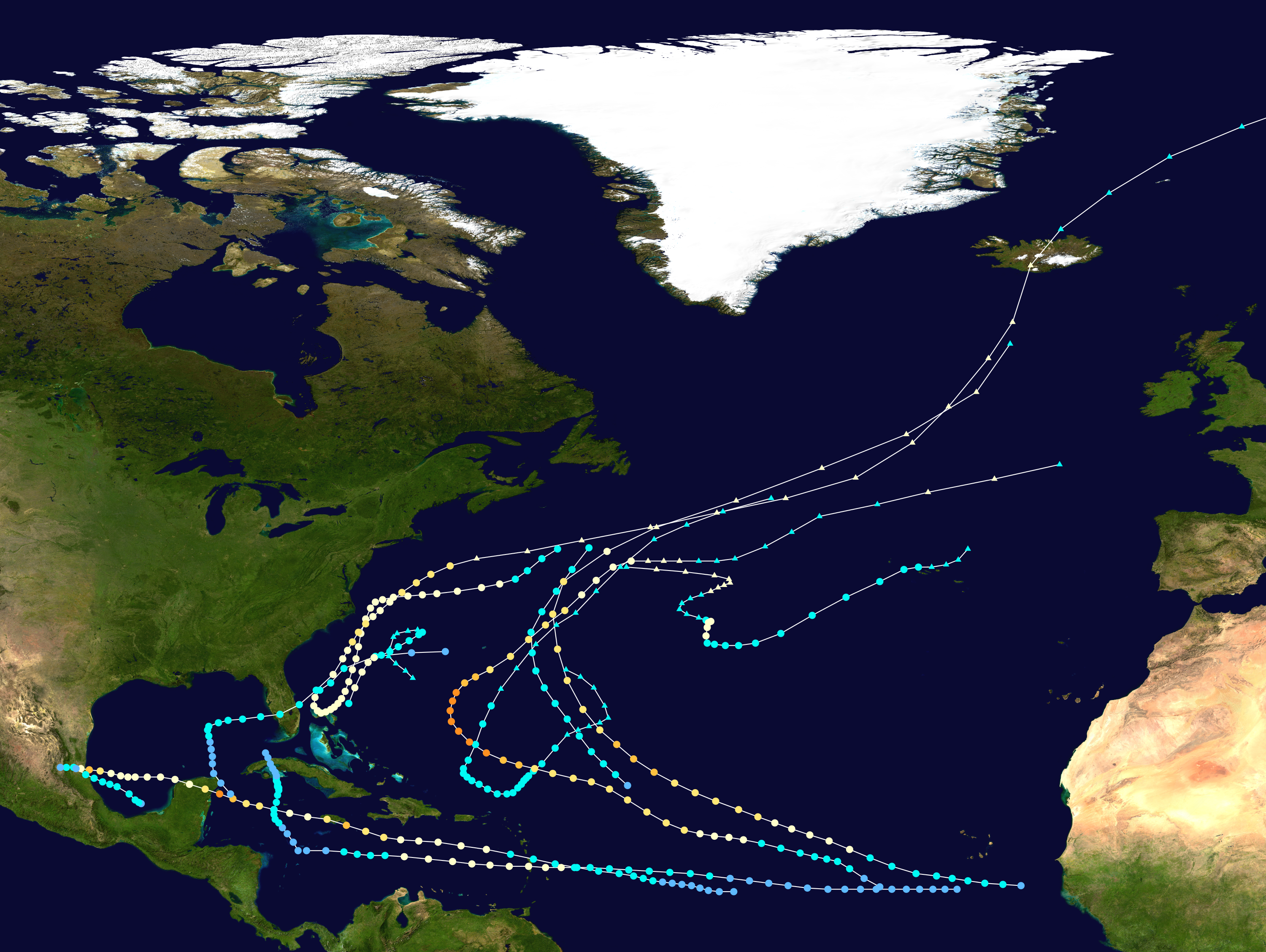 This map shows the tracks of all tropical cyclones in the 1951 Atlantic hurricane season. The points show the location of each storm at 6-hour intervals. The colour represents the storm's maximum sustained wind speeds as classified in the Saffir-Simpson Hurricane Scale (see below), and the shape of the data points represent the nature of the storm. Saffir–Simpson hurricane wind scale Tropical depression≤38 mph≤62 km/h Category 3111–129 mph178–208 km/h Tropical storm39–73 mph63–118 km/h Category 4130–156 mph209–251 km/h Category 174–95 mph119–153 km/h Category 5≥157 mph≥252 km/h Category 296–110 mph154–177 km/h Unknown Storm typeTropical cycloneSubtropical cycloneExtratropical cyclone / Remnant low / Tropical disturbance